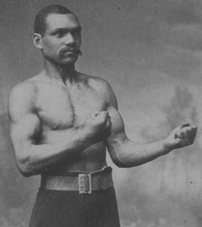 Old Chocolate George Godfrey.